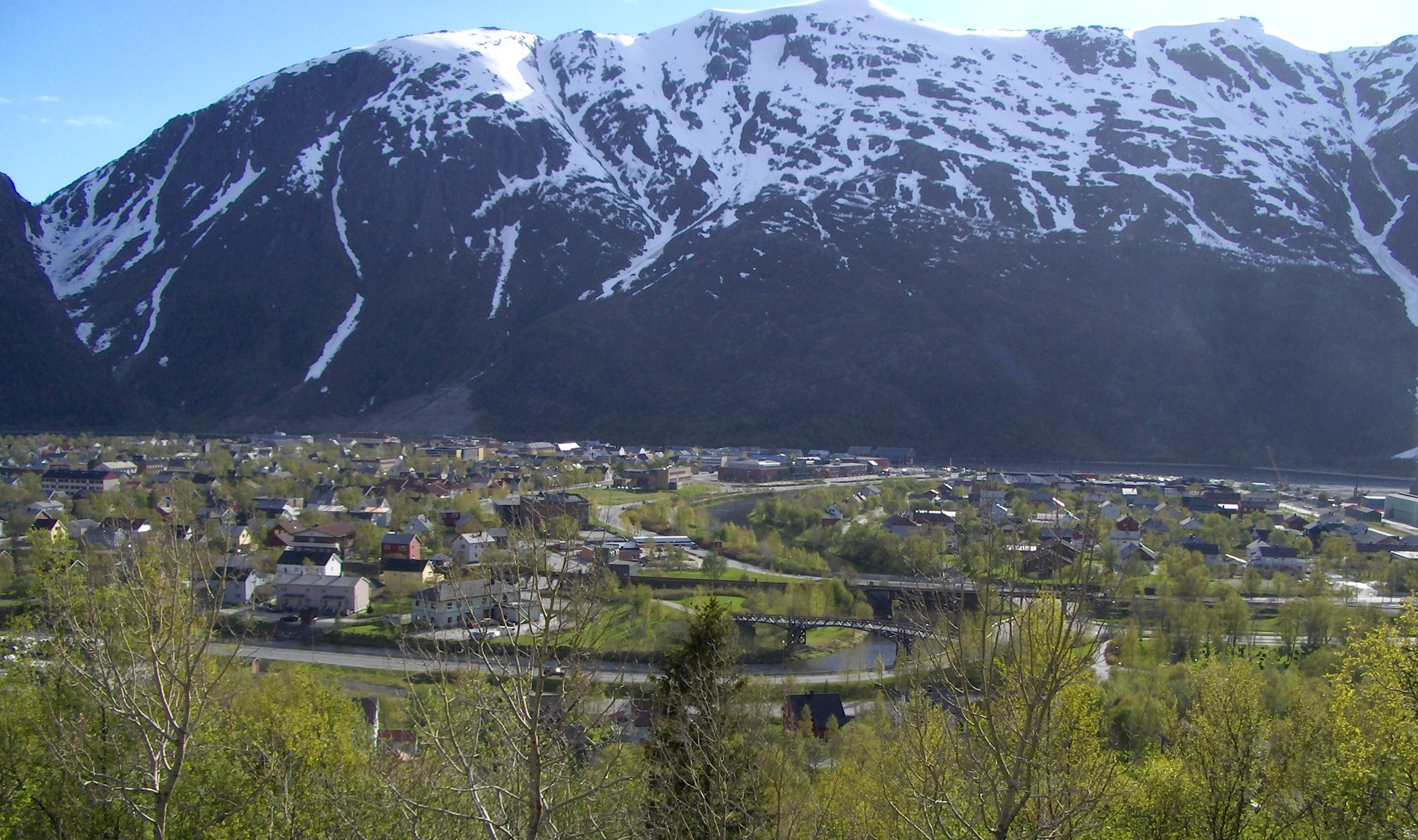 Picture of Mosjøen town, Source: Own work, Free permisson